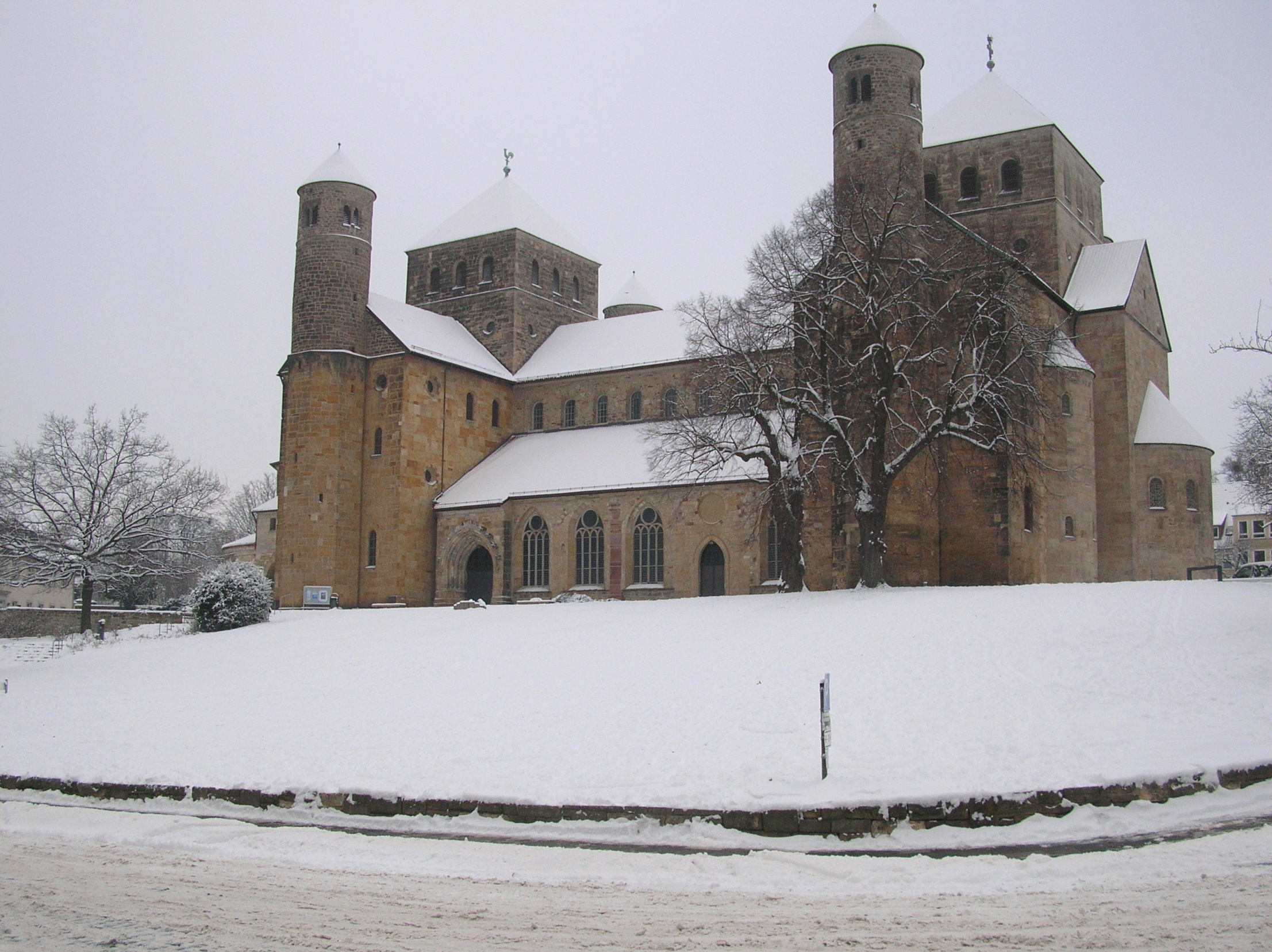 St Michael's Church, Hildesheim